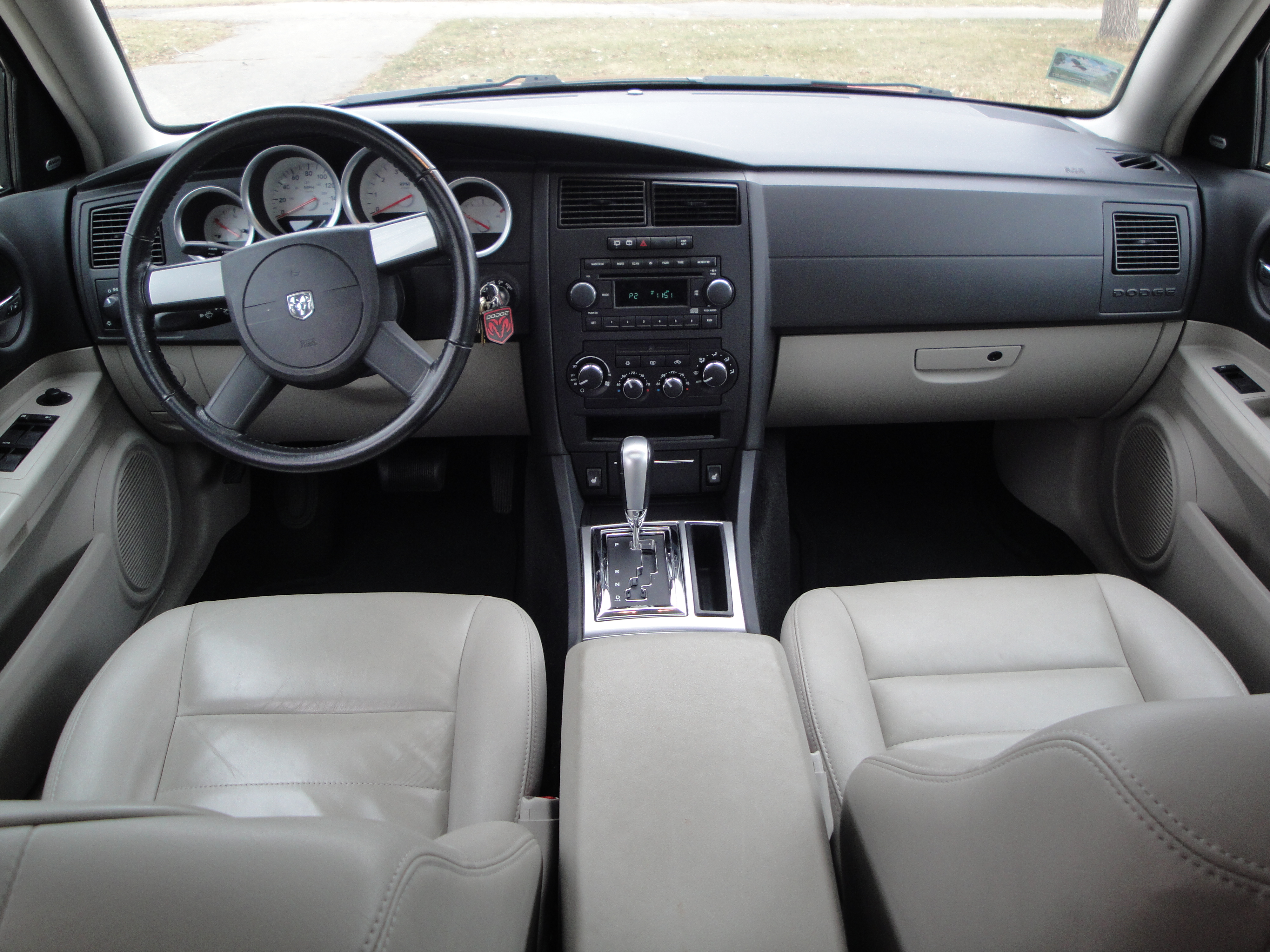 05 Dodge Magnum RT Interior